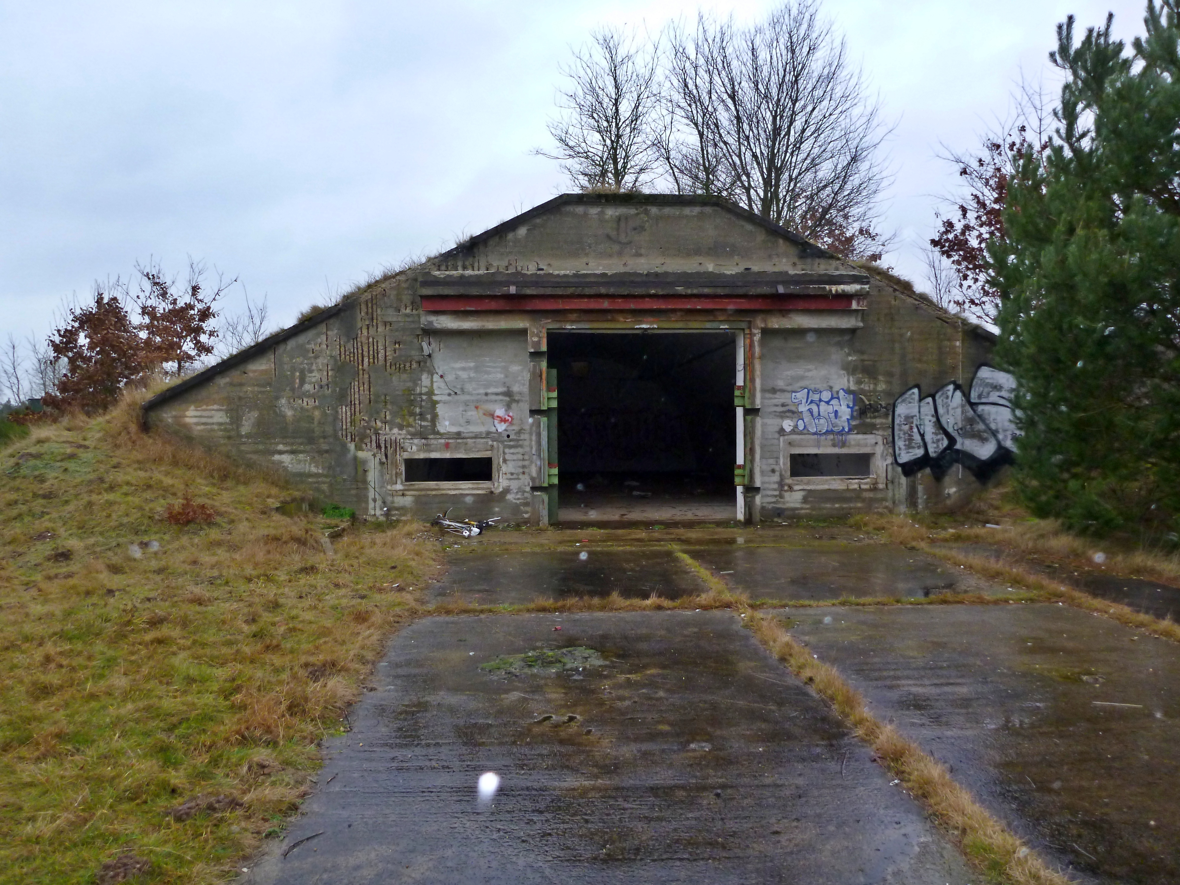 Former building of the Special Ammunition Site Kellinghusen